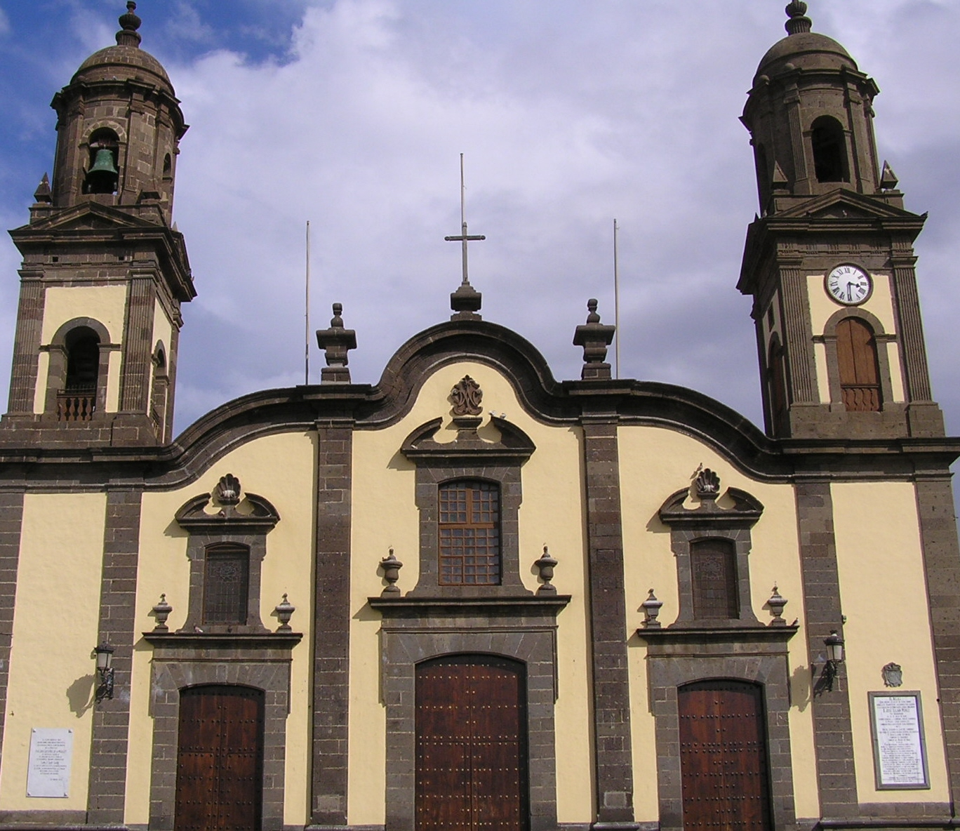 Iglesia Matriz de Santa Maria de Guía, Grand Canary, Canary Islands